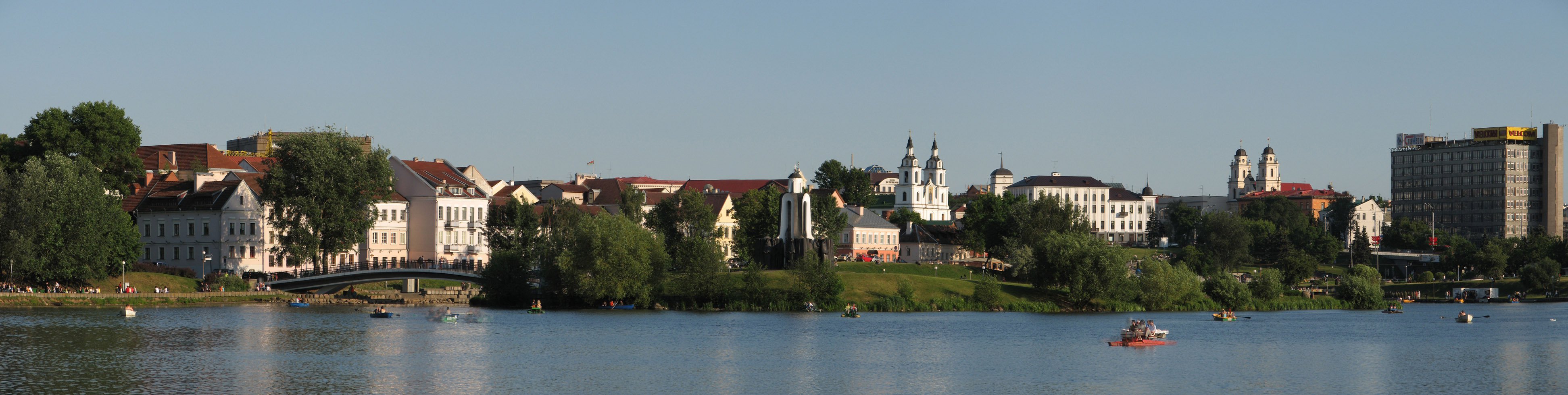 Panorama of Troeckoe Predmeste. Minsk